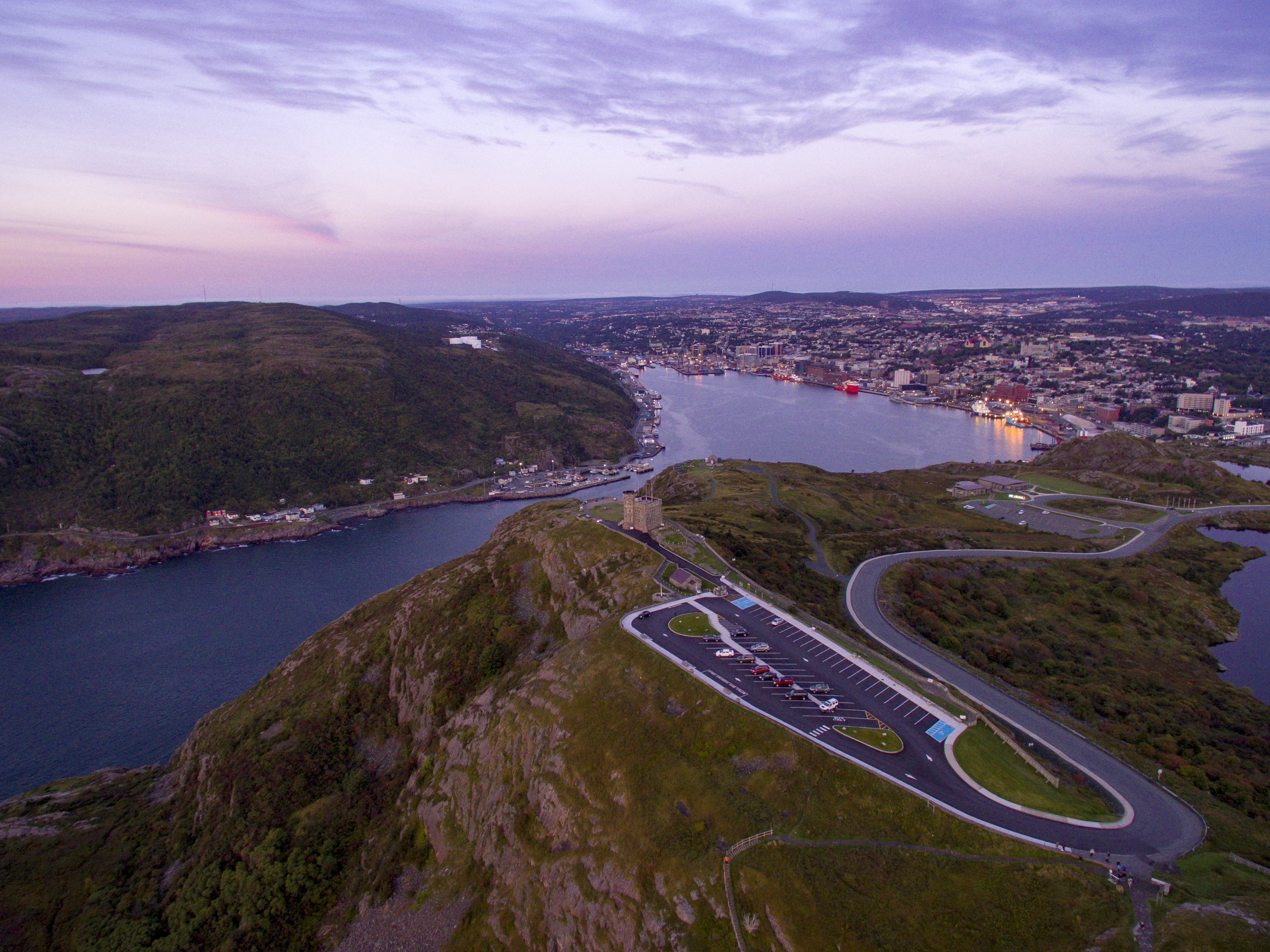 Cabot Tower National Historic Site on Signal Hill overlooking downtown St. John's, Newfoundland & Labrador.